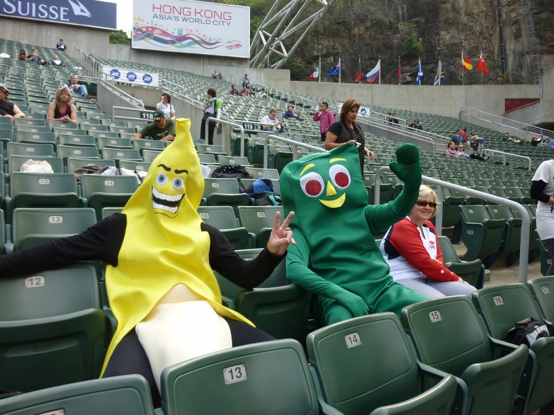 2011 Hong Kong Rugby Sevens, Gumby and Banana resting before the matches begin